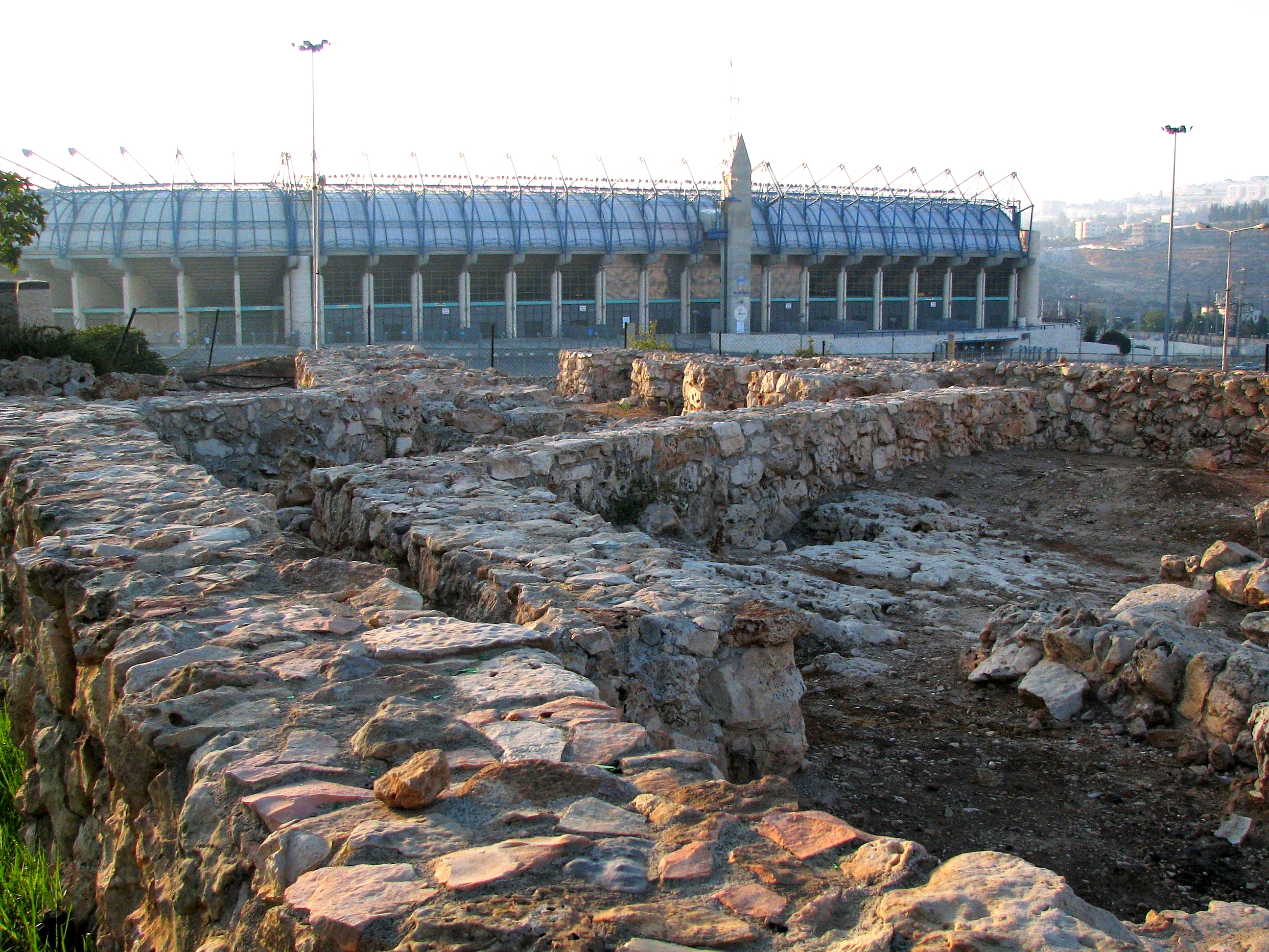 Bronze Age settlement excavated in Malcha, Israel. Located between Kanyon Malha and Teddy Stadium.